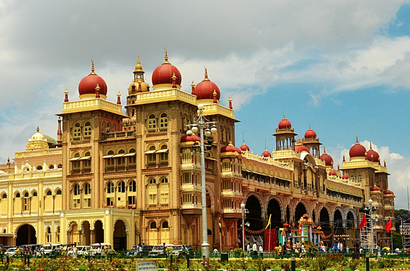 Dasara festival at Mysore Palace in Mysore, India. (photo - Jim Ankan Deka)